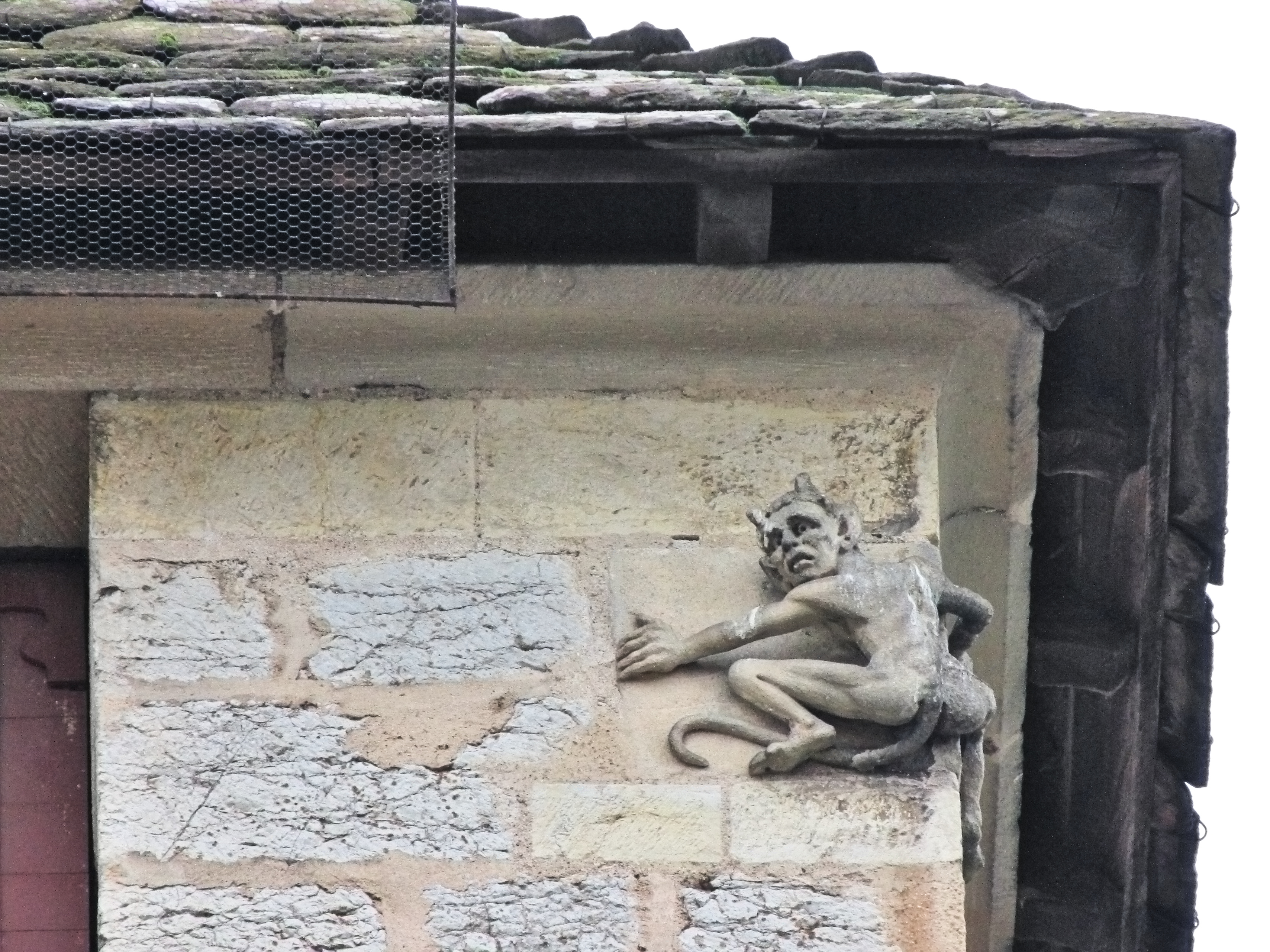 The little devil from the Pont Valentré (Cahors, France), placed during the 1879 restoration. .